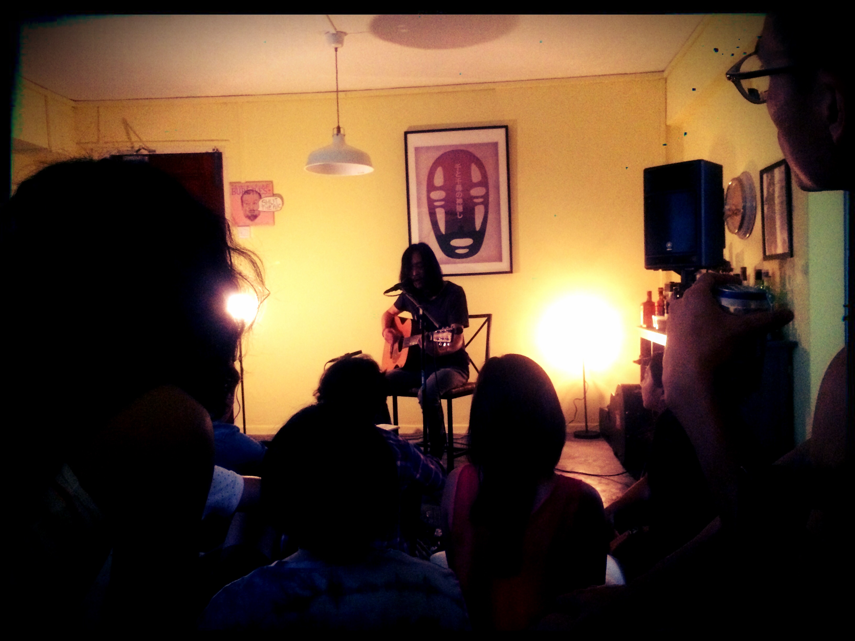 Singer-songwriter Leslie Low of The Observatory performing at Queen's Road, Singapore, in 2014